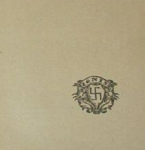 "Ignis Editor Society" - the swastika mark of society. Poland [1822 - 1914] and [1920-1944]